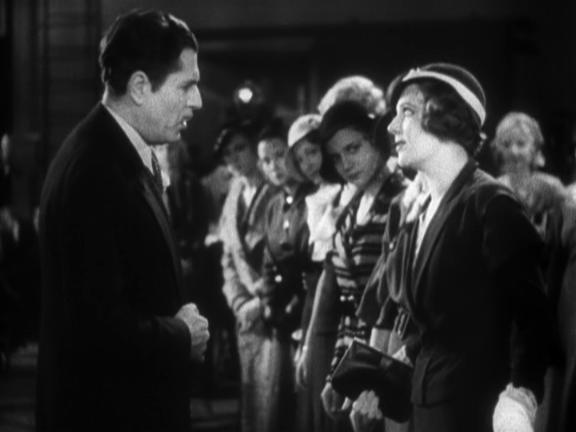 Frame from public domain trailer for the 1933 Warner Bros. film 42nd Street showing Warner Baxter as Julian being confronted by Ruby Keeler as Peggy.